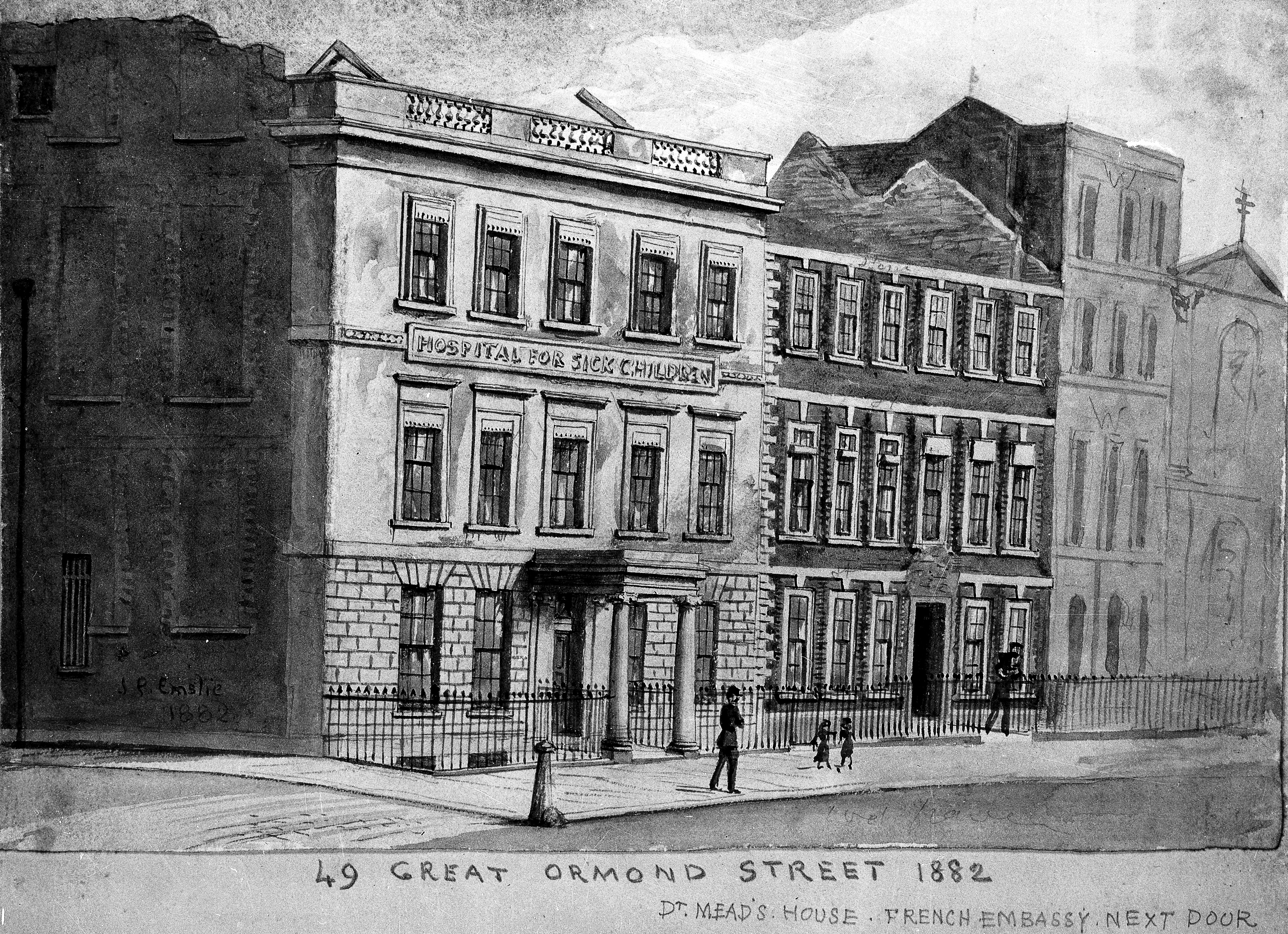 View of "49 Great Ormond Street, 1882, Dr Mead's House. French Embassy, next door" (colour) General Collections Keywords: J. P. Emslie; great ormond street hospital, origins